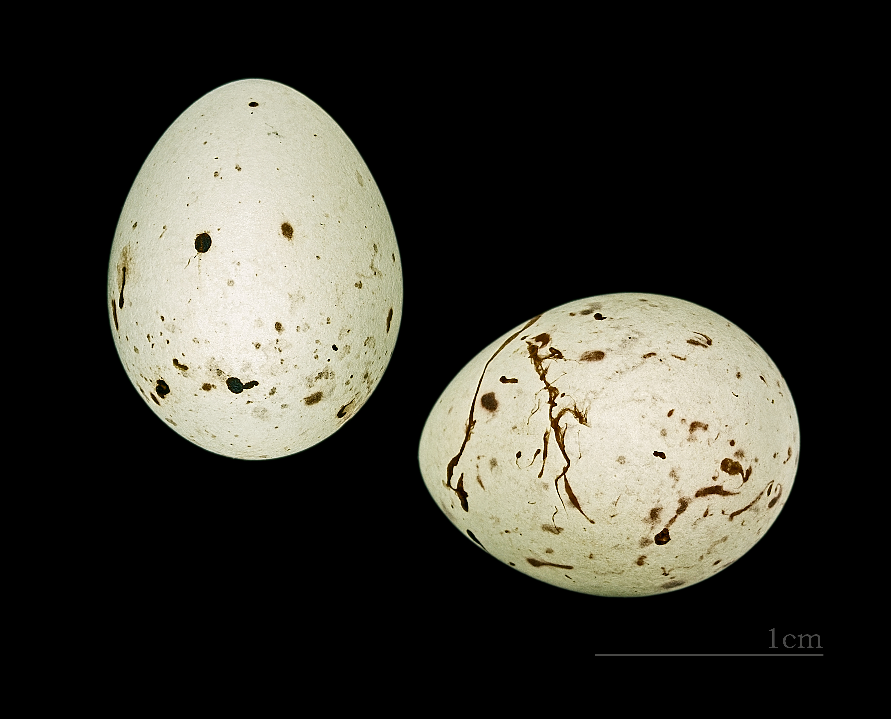 Egg of Twite. Collection of Jacques Perrin de Brichambaut